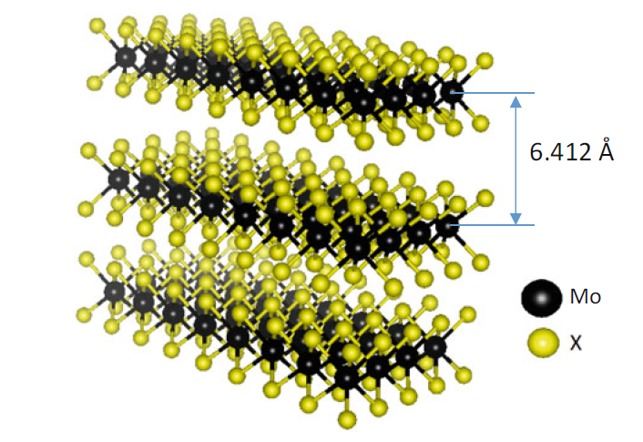 The distance between the planes and the van der Waals force between them